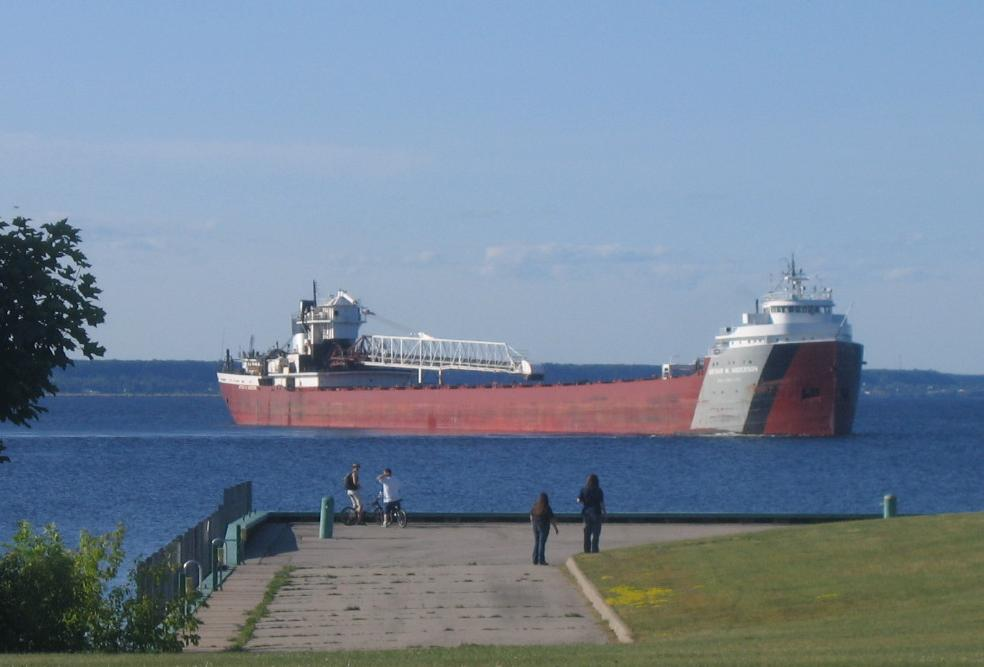 Arthur M Anderson from Municipal dock, Escanaba, MI July 4, 2008 IMO Number: 5025691 MMSI Number: 366972020 Callsign: WE4805 Length: 234 m Beam: 22 m